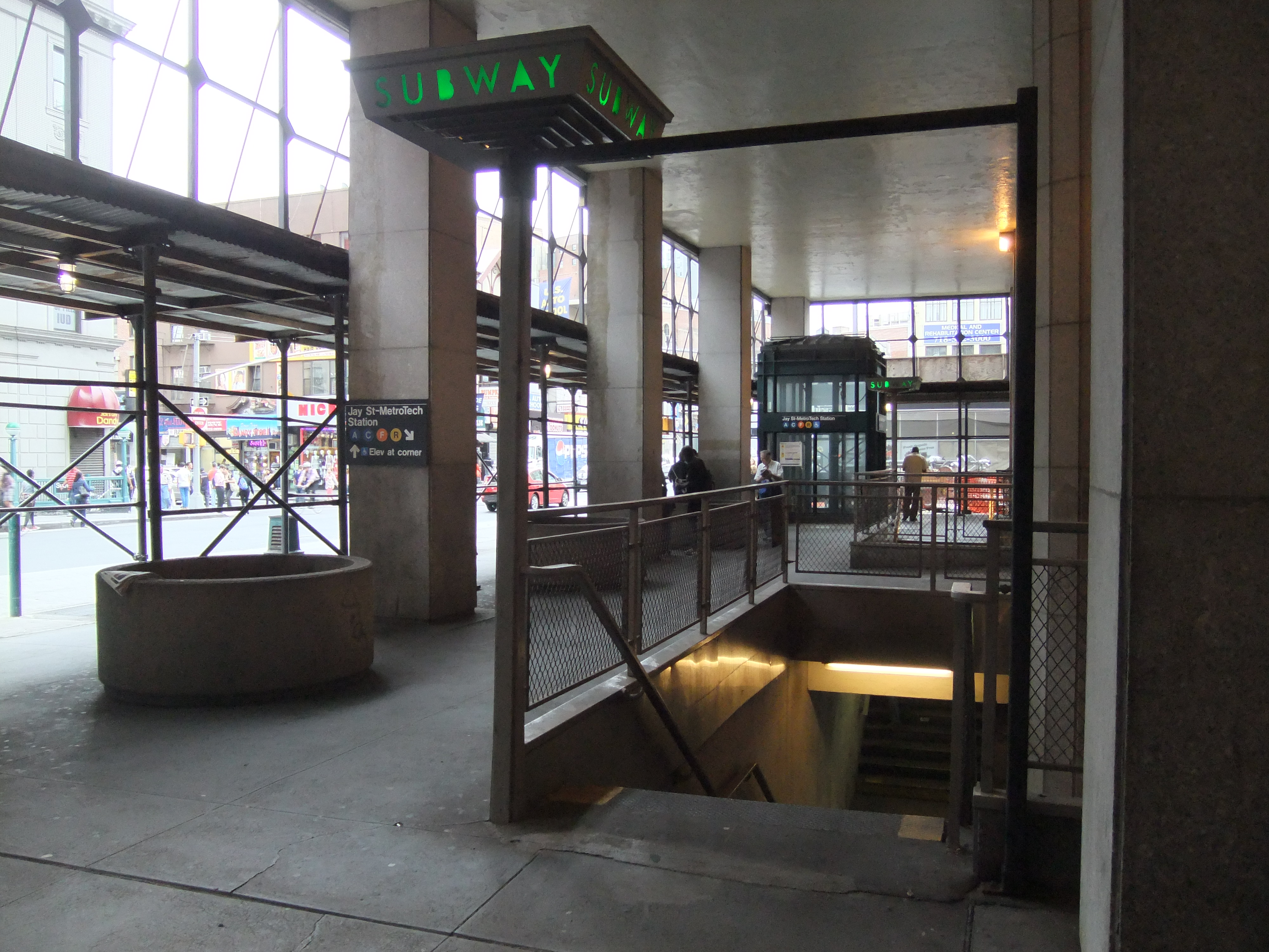 Staircase to the Jay Street (Fulton St/4th Avenue) station at Jay Street and Willoughby Street in Brooklyn. NY.